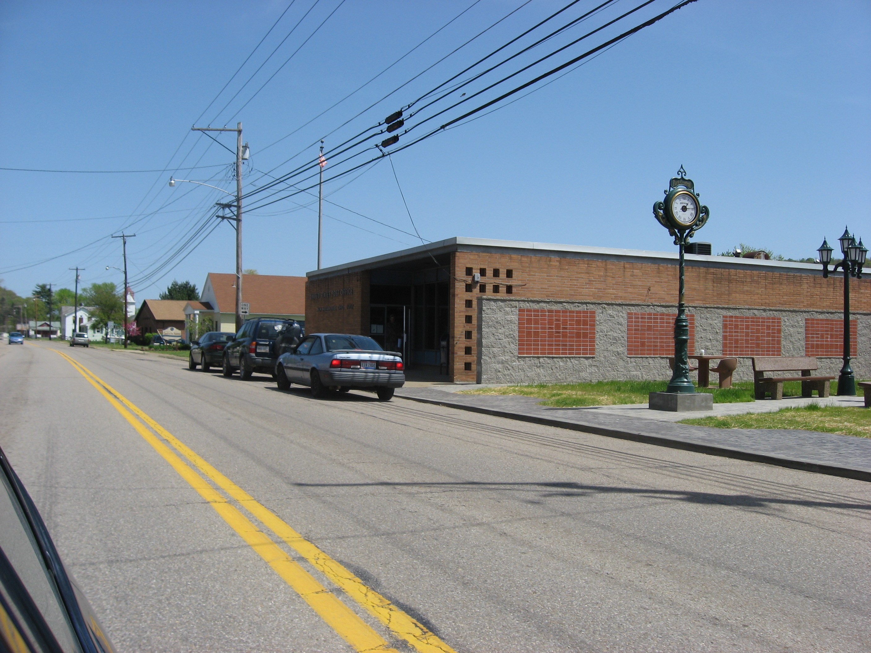 New Matamoras Post Office, located at 515 Second Street (State Route 7) in New Matamoras, Ohio, United States.